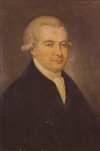 George Walton (ca. 1749–1804)